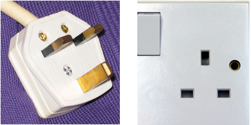 Basic BS 1363 Socket